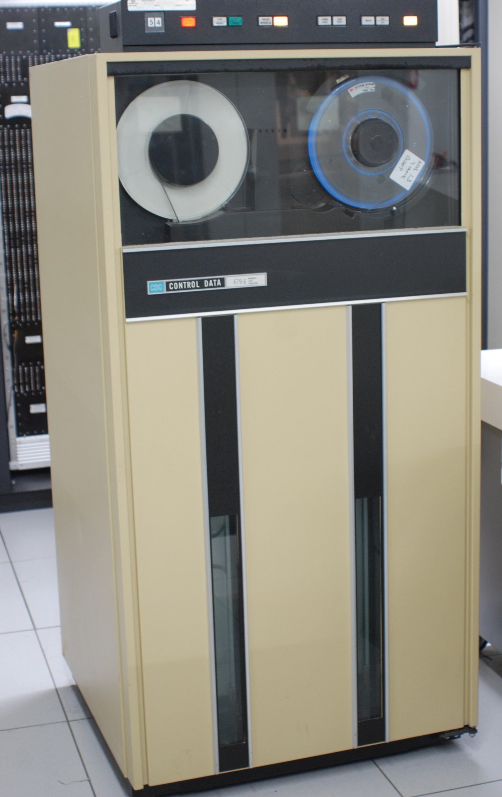 Control Data Corporation 679-6 Magnetic Tape Transport. Currently on display at the Living Computer Museum in Seattle, Washington.